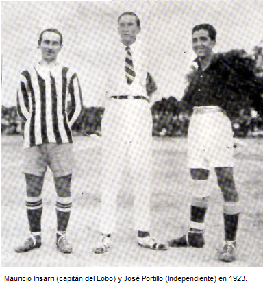 Mauricio Irisarri (captain of Gimnasia y Esgrima de Mendoza) and José Portillo (player of Independiente Rivadavia) posing together before the derby.